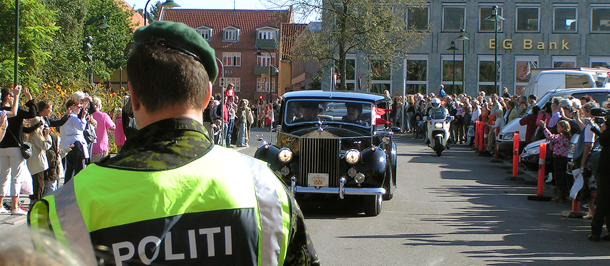 Rolls Royce Silver Wraith, belonging to Queen Magrethe of Denmark during a visit to Roskilde Cathedral